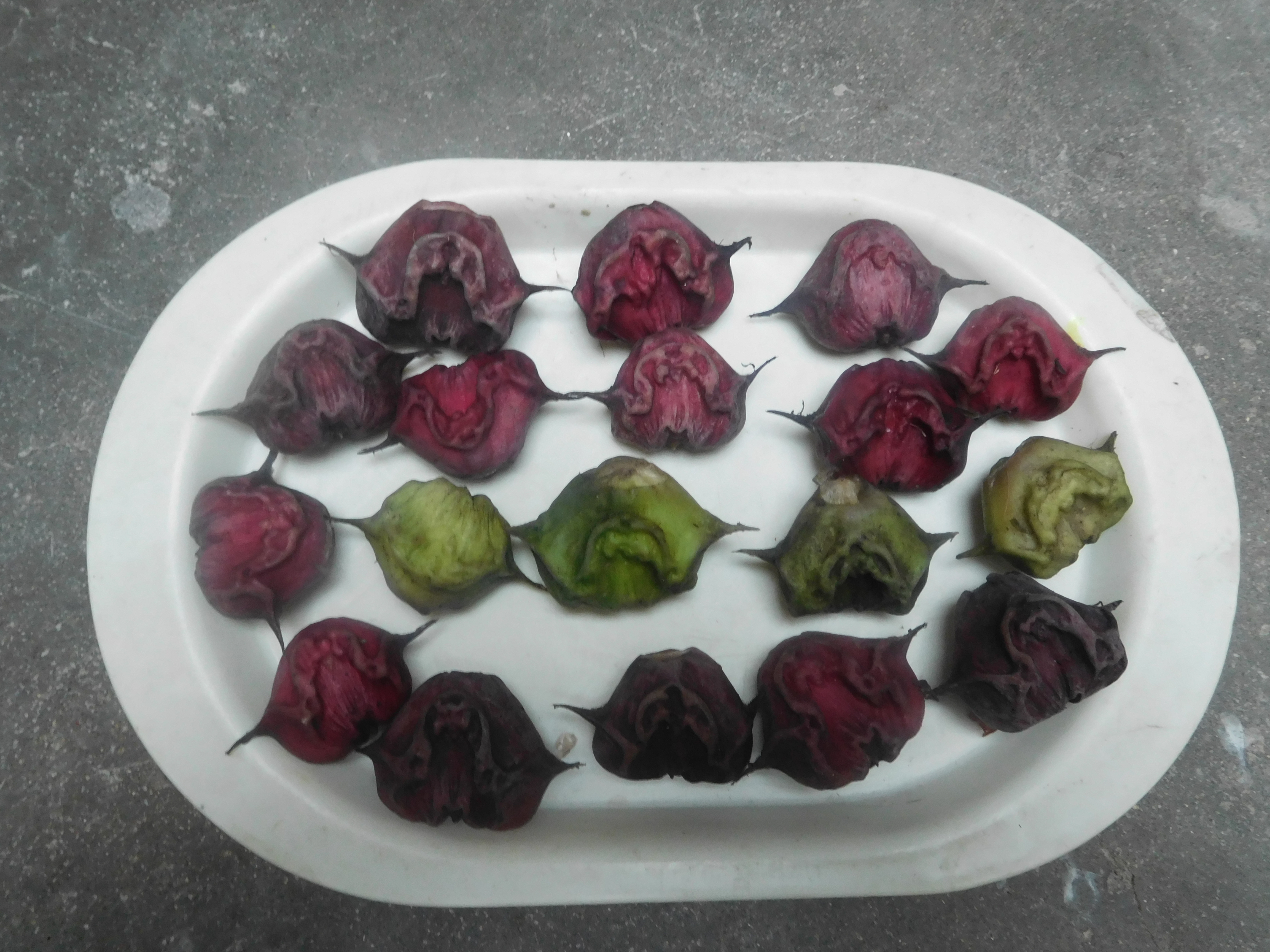 Water chestnut is kind of fruit.